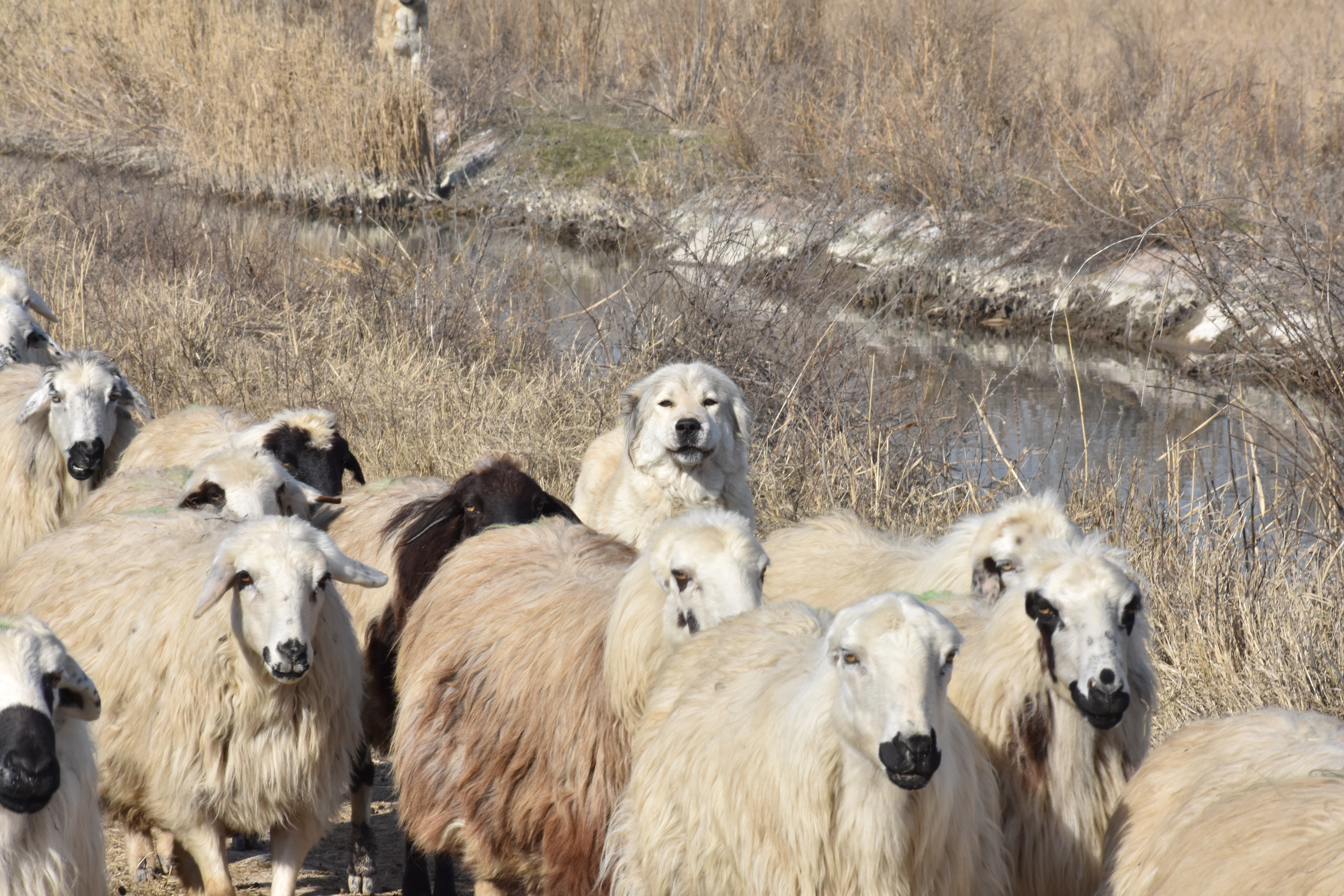 Armenian Gampr dog guarding a herd of sheep near the lakes of Armash, Armenia